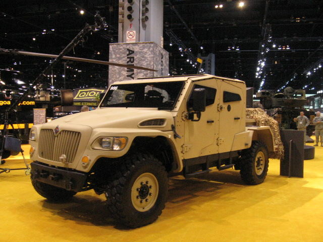 International MXT-MVAarmy mxt